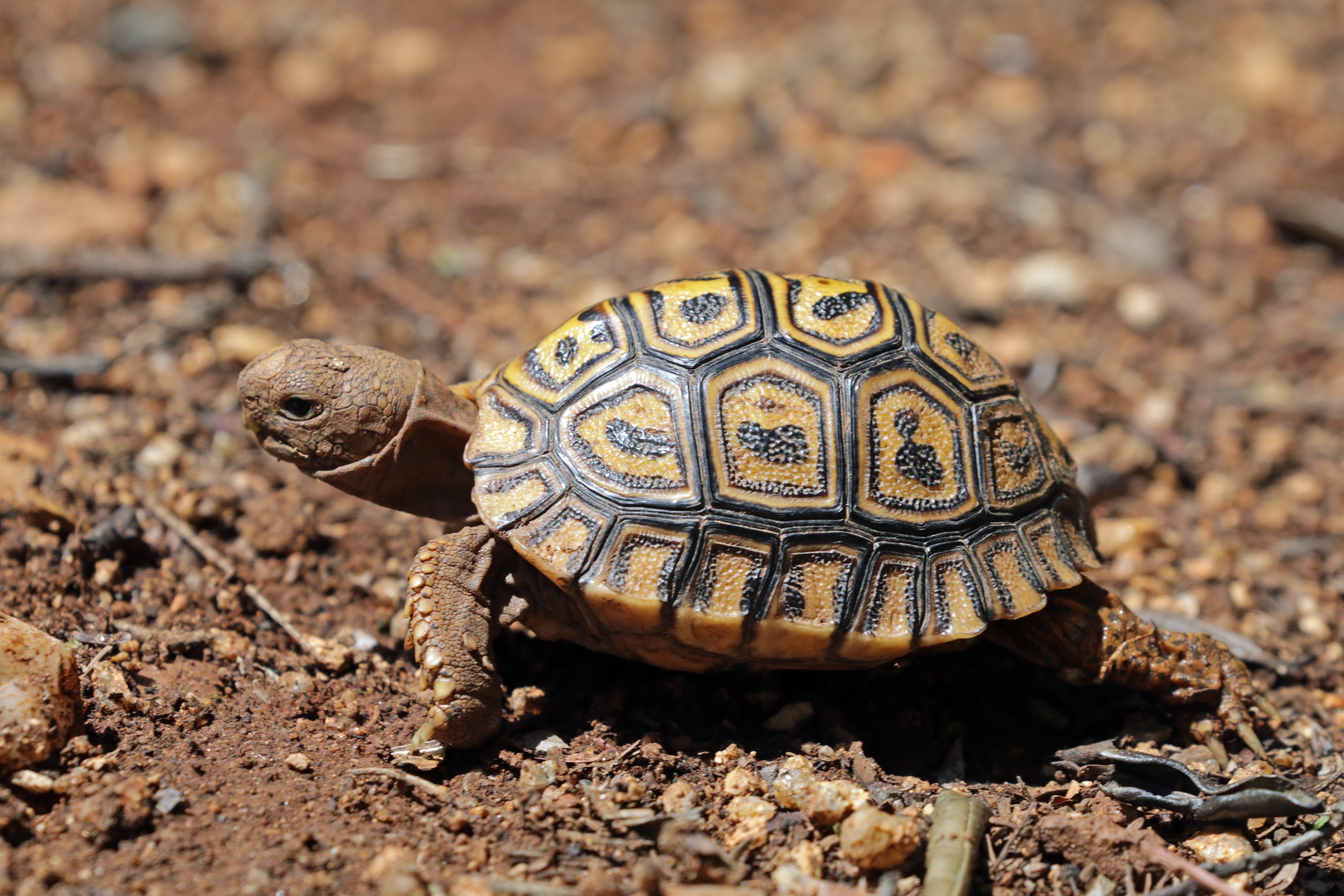 Leopard tortoise (Stigmochelys pardalis) juvenile, Walter Sisulu Botanical Gardens, Roodepoort, South Africa